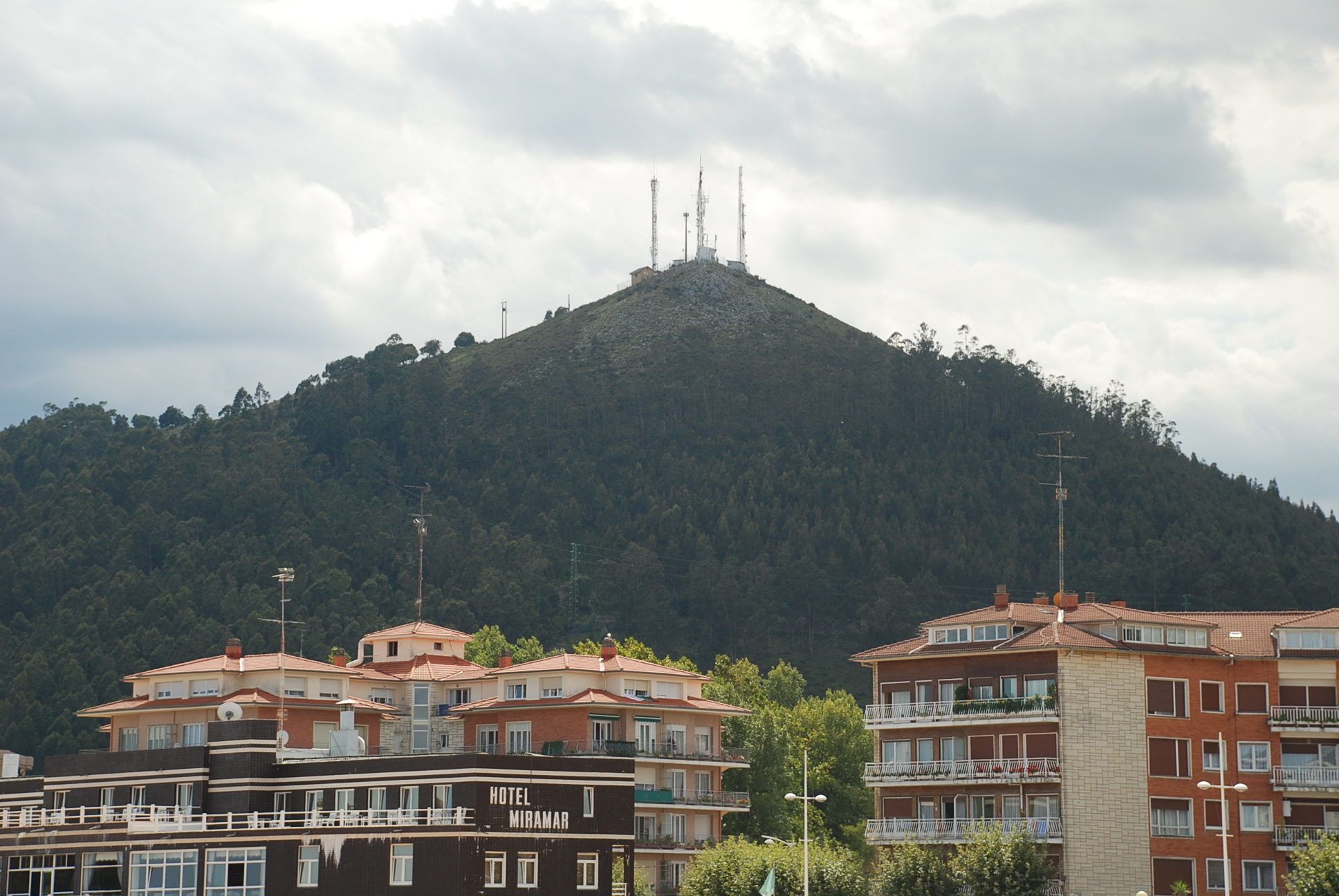 Hill fort of Monte Cueto in Castro Urdiales (Cantabria).